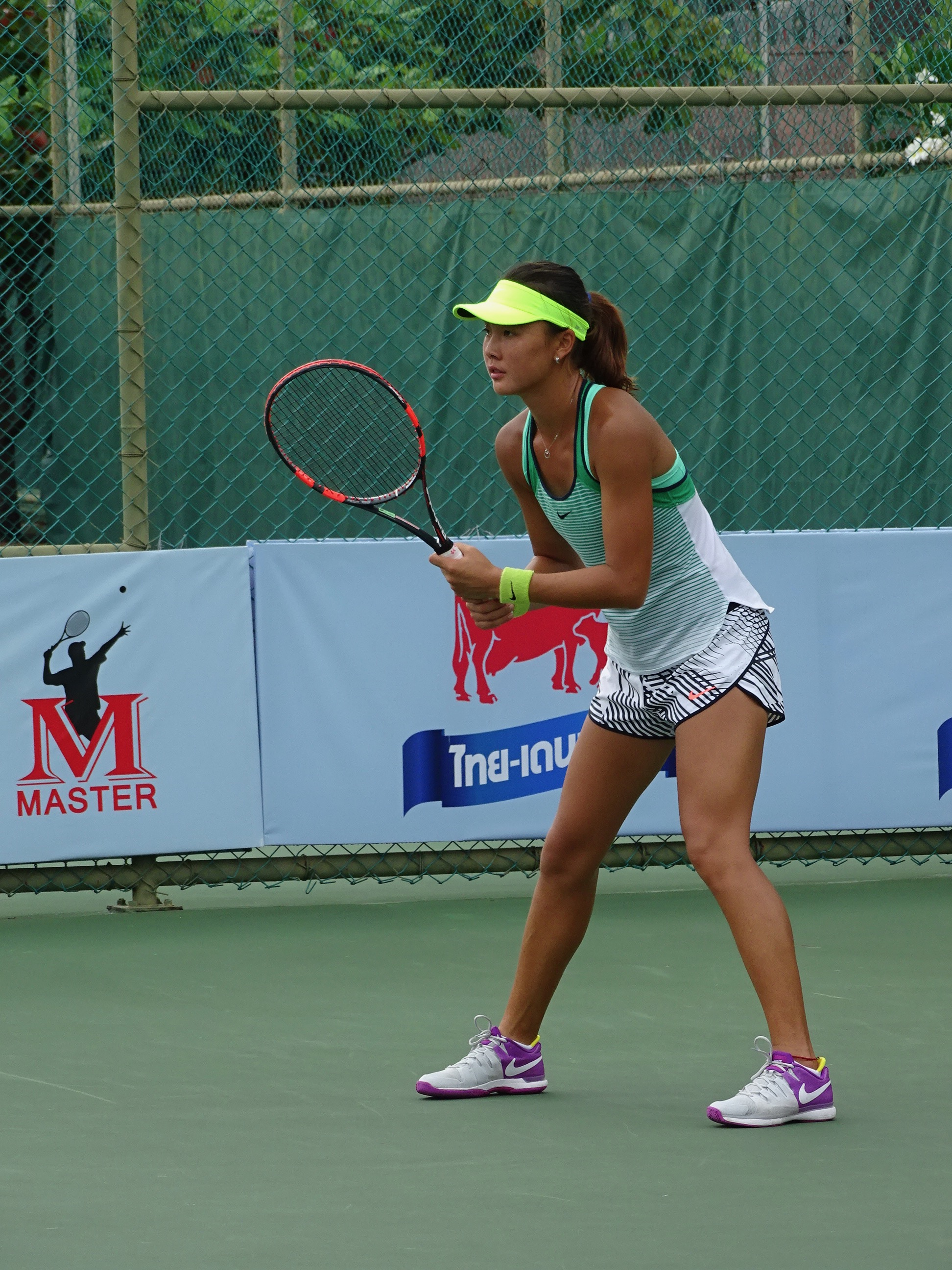 Yuan Yue in Nonthaburi 2017